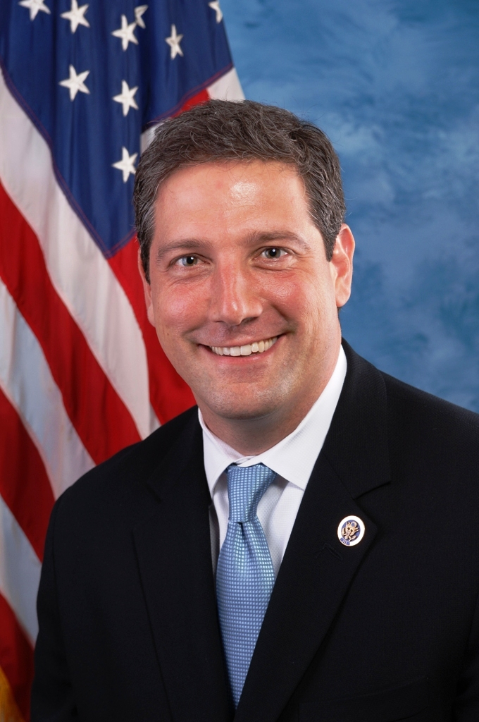 Rep. Tim Ryan Congressional Head Shot 2010